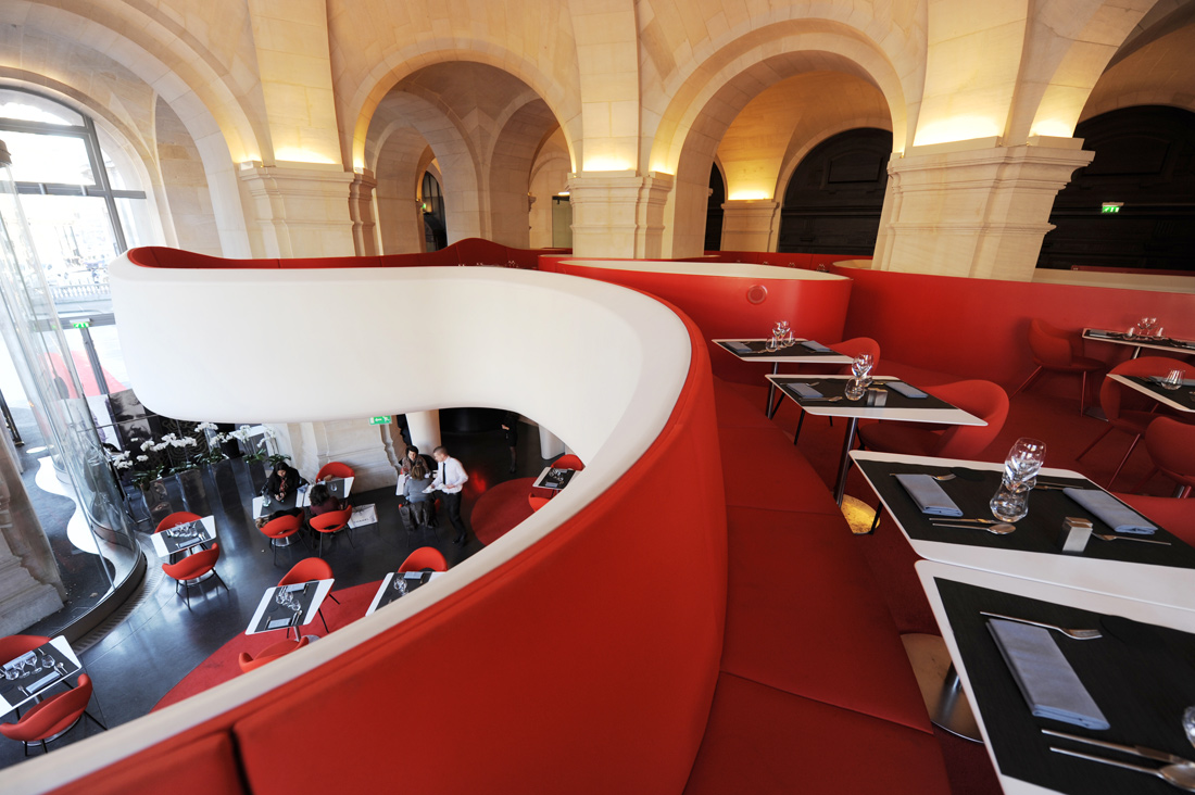 Interior of L'Opera restaurant, inside the Palais Garnier opera house in Paris.